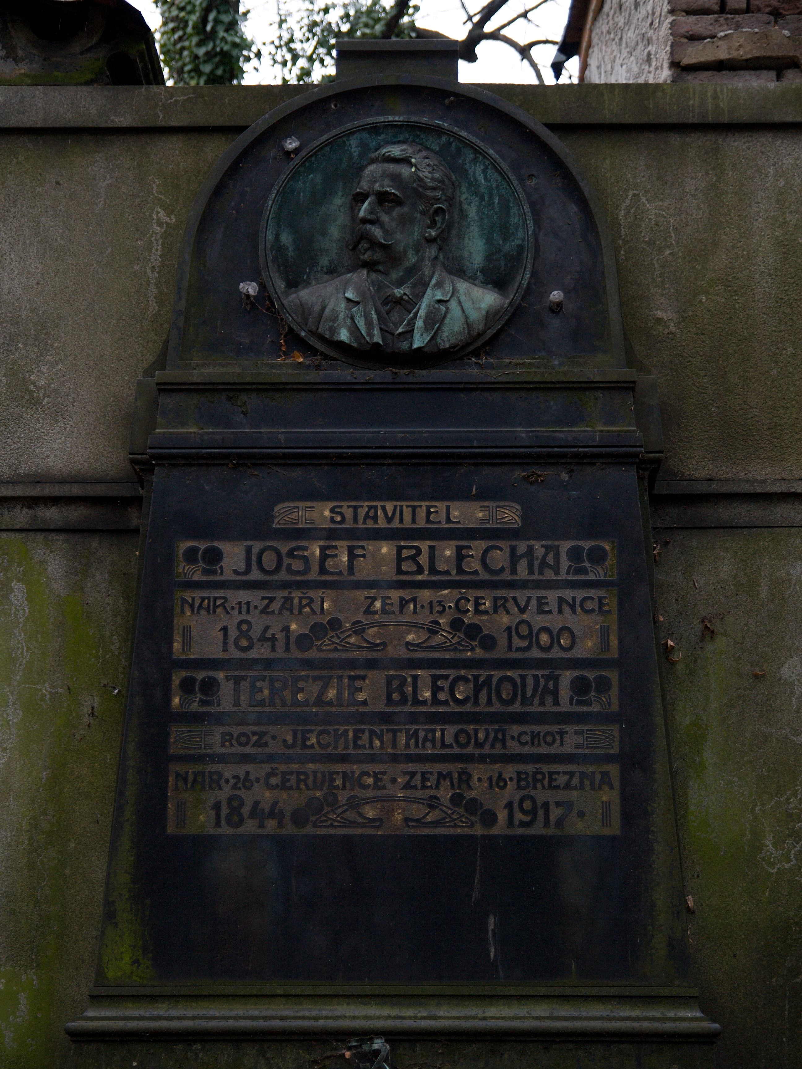 Olšanské hřbitovy Cemetery - Grave of Josef Blecha Family